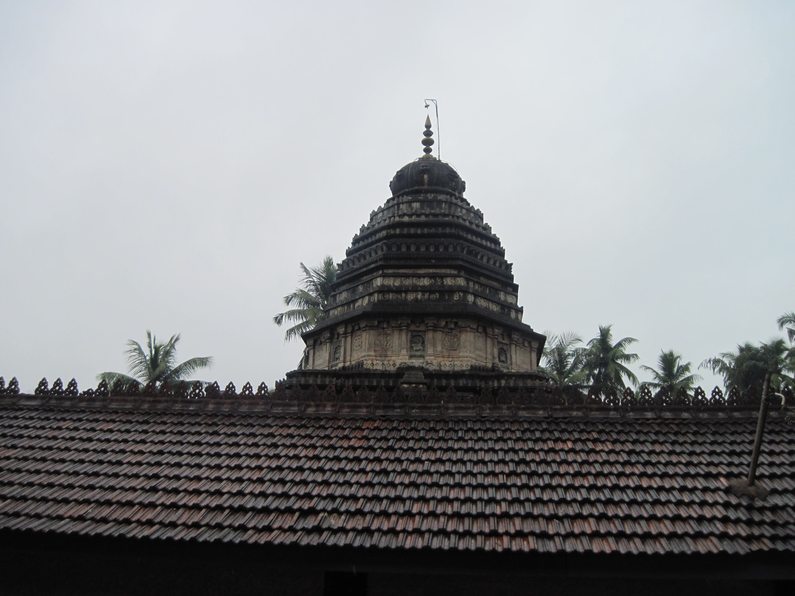 Mahabaleshwara Temple, Gokarna ಕನ್ನಡ: ಮಹಾಬಲೇಶ್ವರ ದೇವಾಲಯ, ಗೋಕರ್ಣ